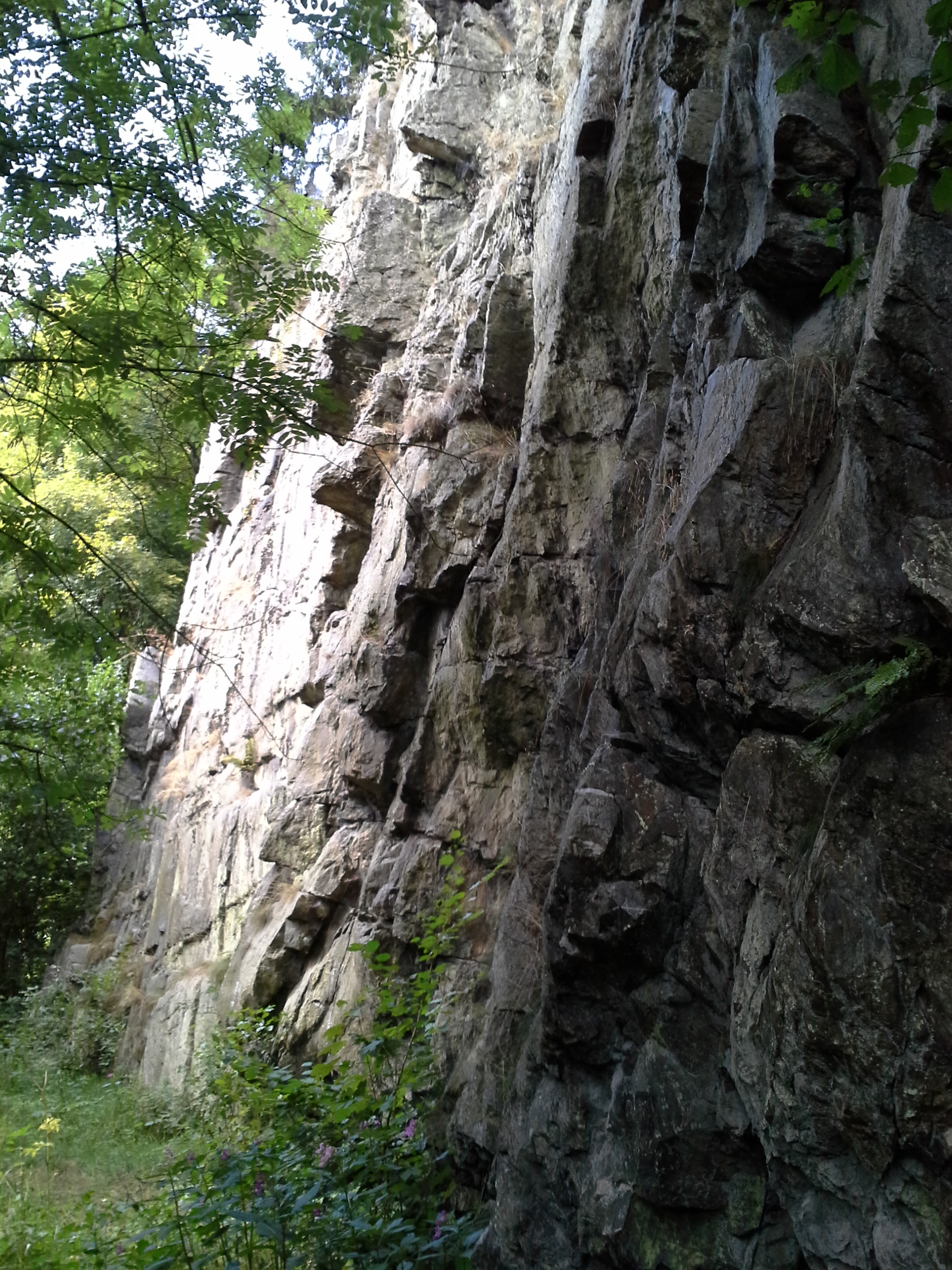 Rocher de Warche Stavelot Belgium